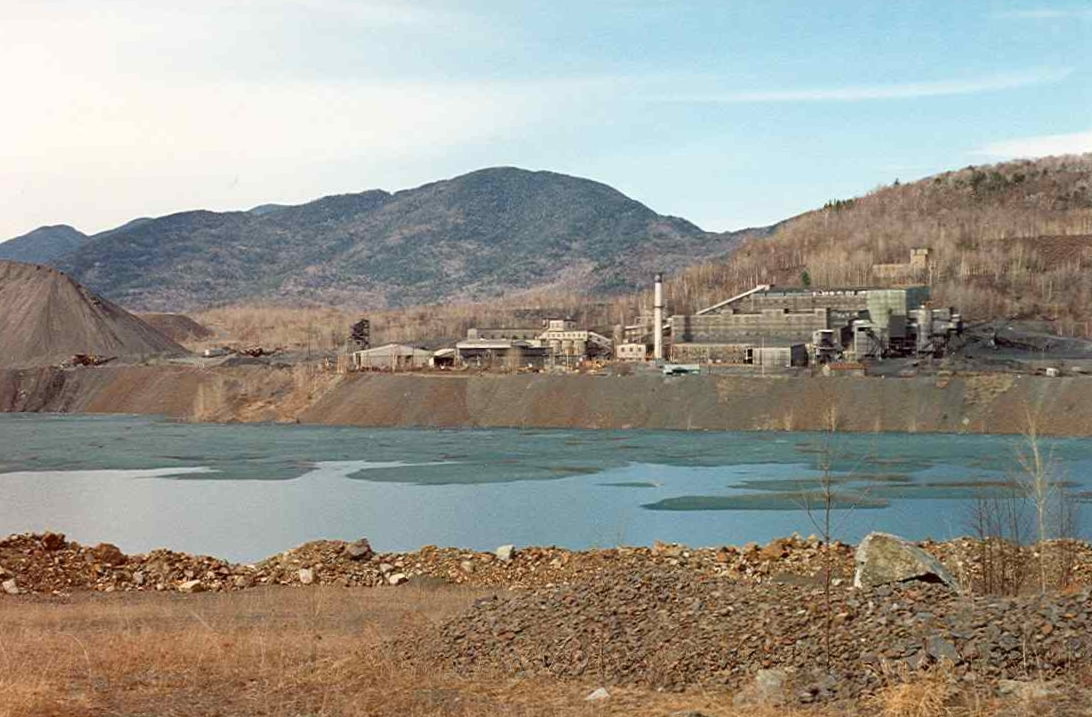 National Lead Industries, Tahawus, Adirondacks, NY